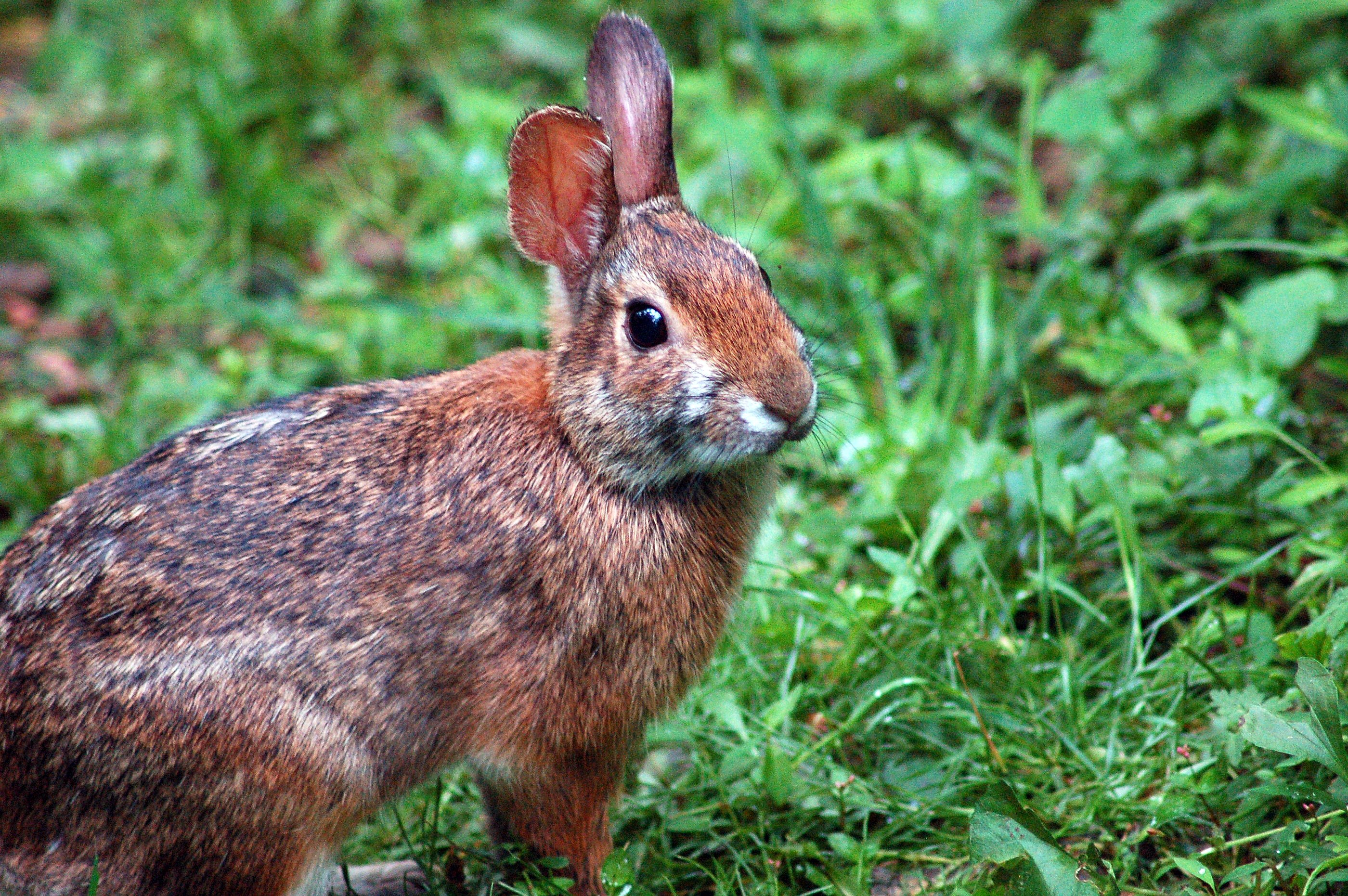 Appalachian Cottontail (Sylvilagus obscurus)